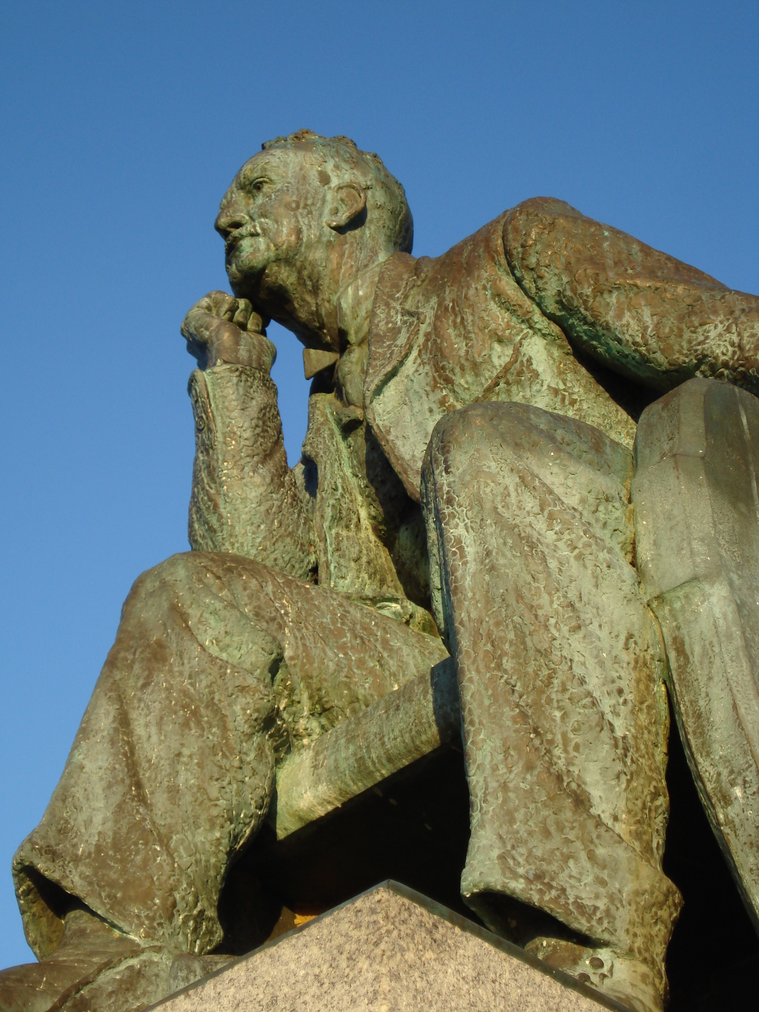 Statue of Cecil Rhodes at the University of Cape Town